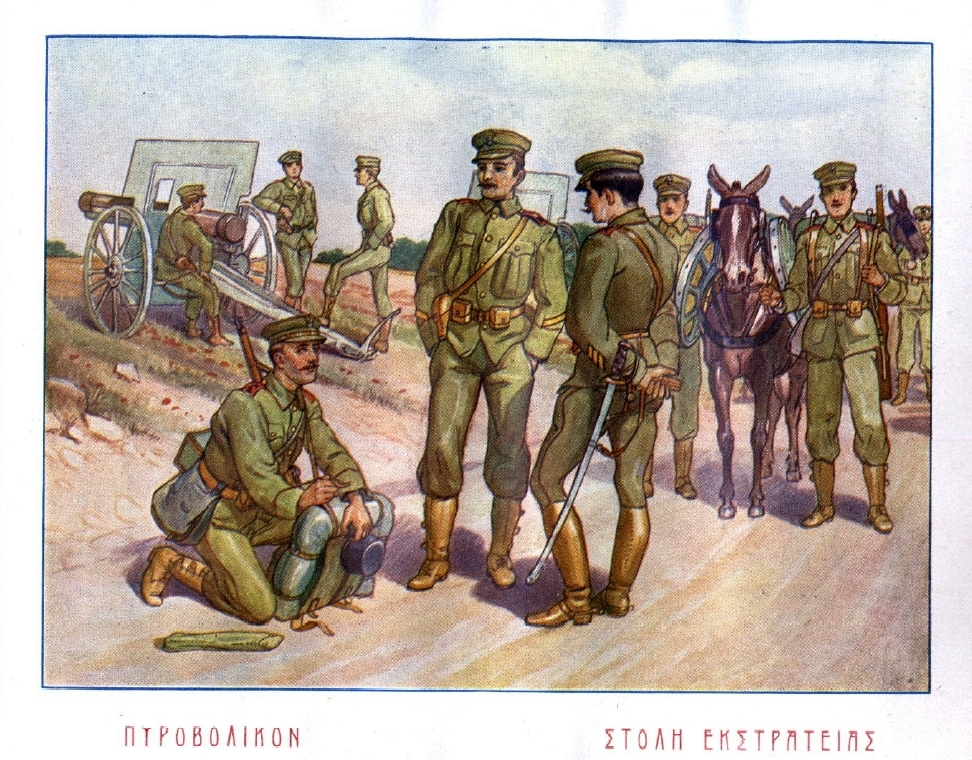 Greek field artillery, ca. 1910